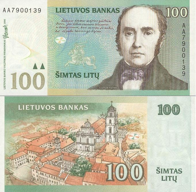 100 litai banknote. Released in 2000.